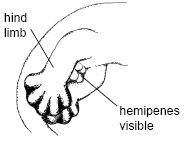 Standard Event System character depiction